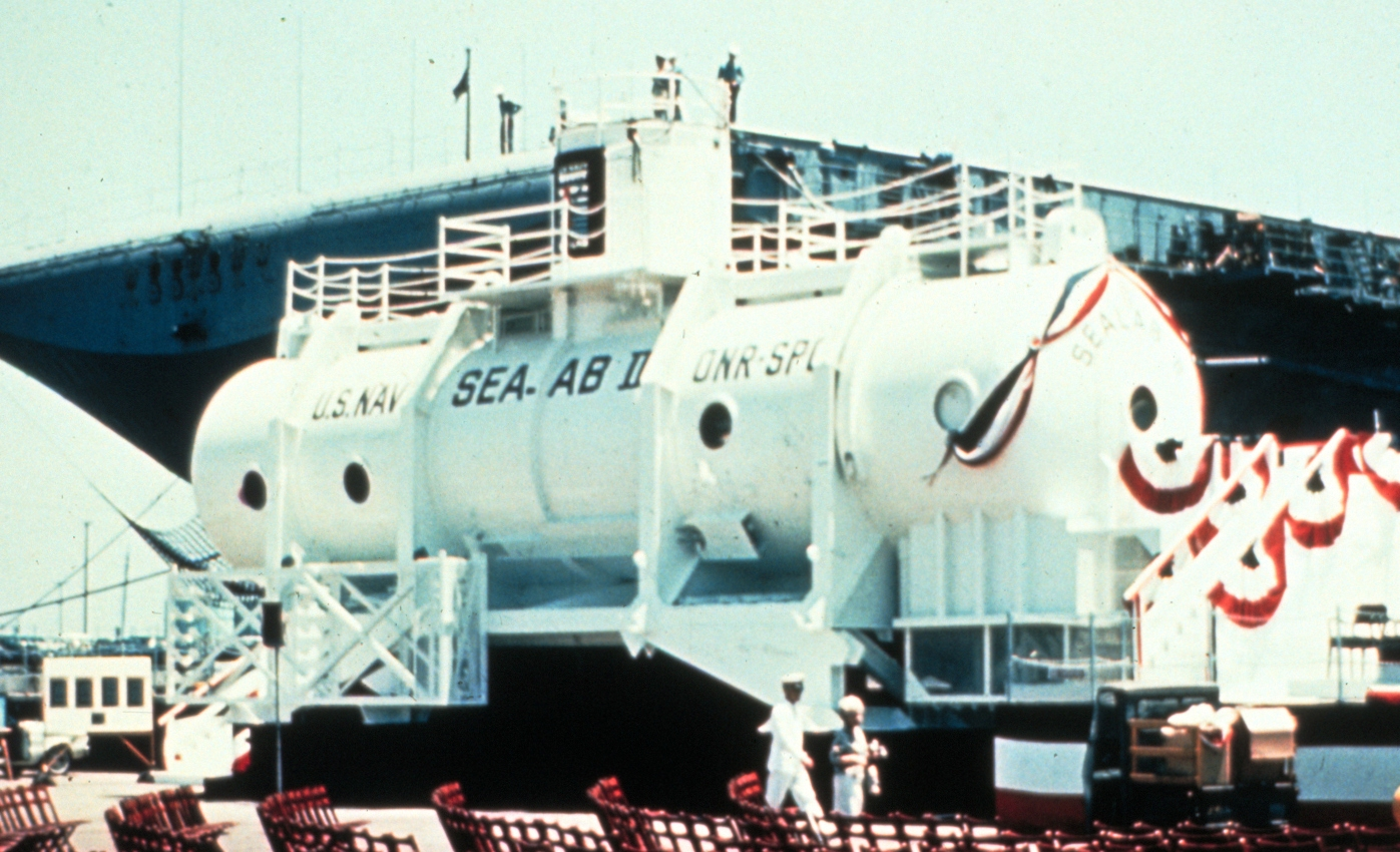 SEALAB II built on SEALAB I, e.g., multiple chambers & dedicated support ship.